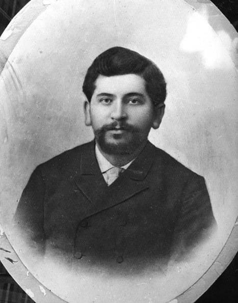 Yeghya Khachatryan, Aram Khachatryan's father